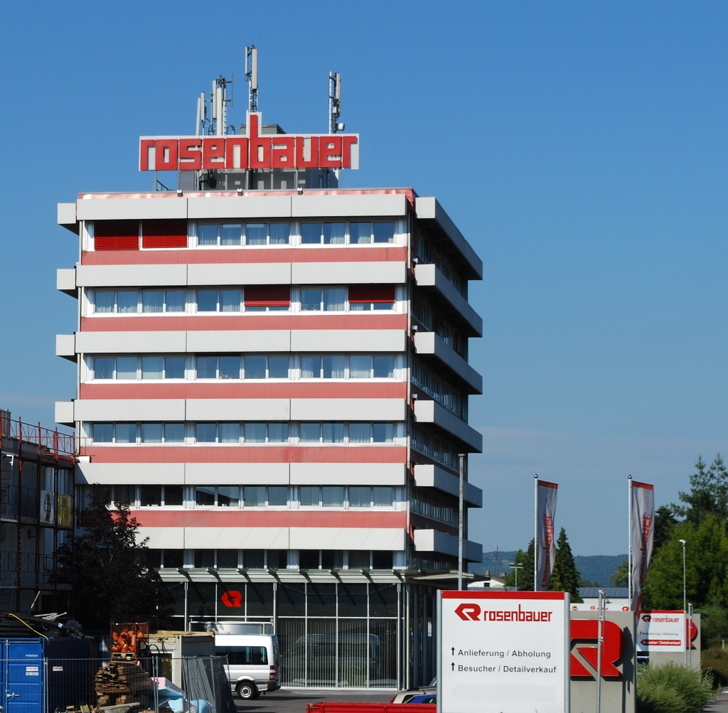 Office building of the headquarters of Rosenbauer International AG in Leonding, Austria